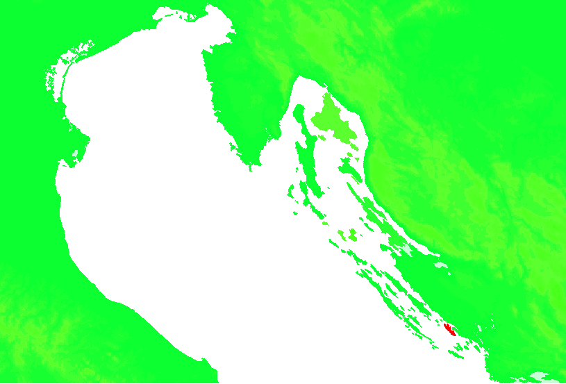 Island of Croatia - Croatia - Murter.PNG